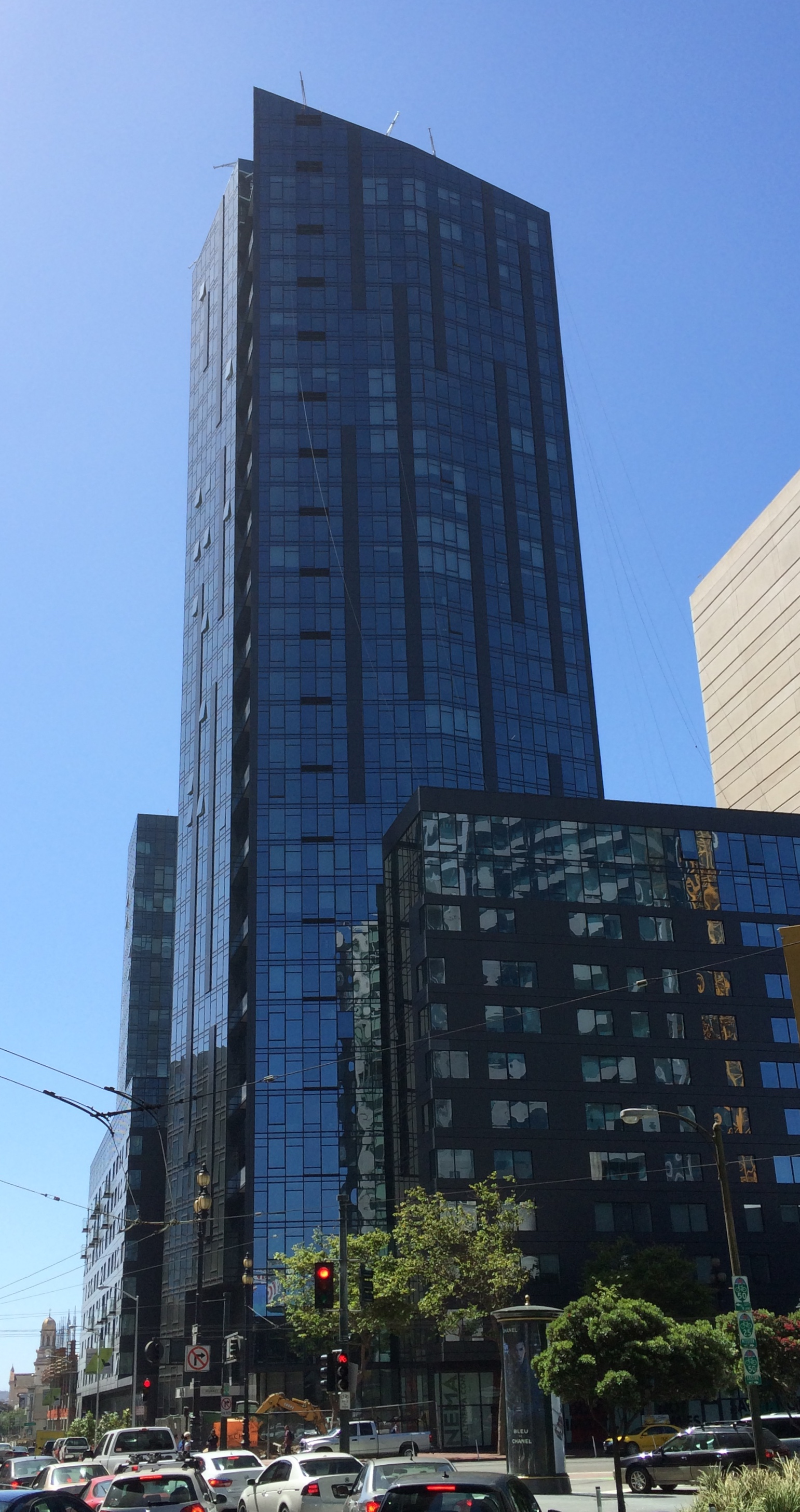 NEMA building from Polk Street in San Francisco in May 2014